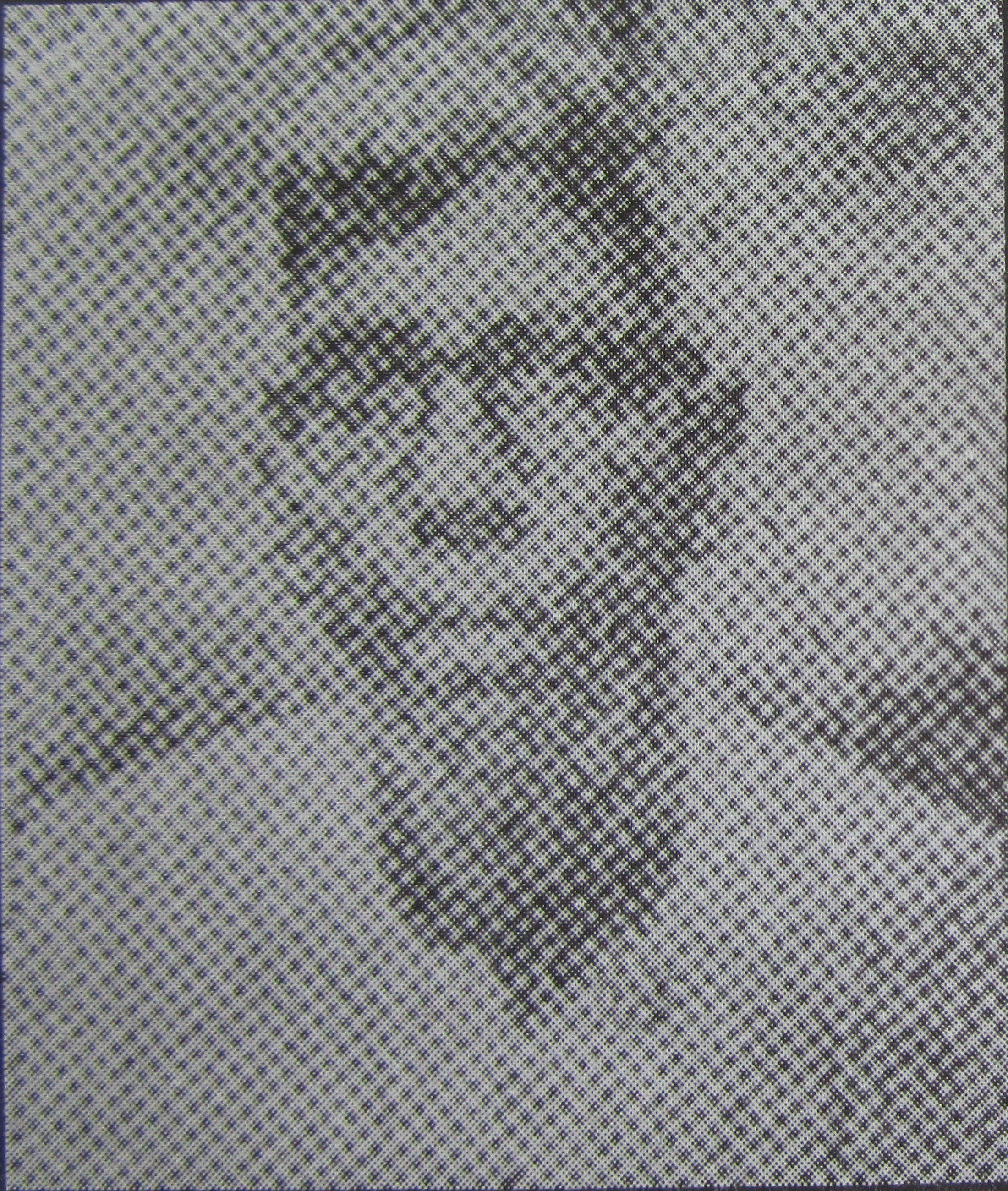 Purnachandra Das